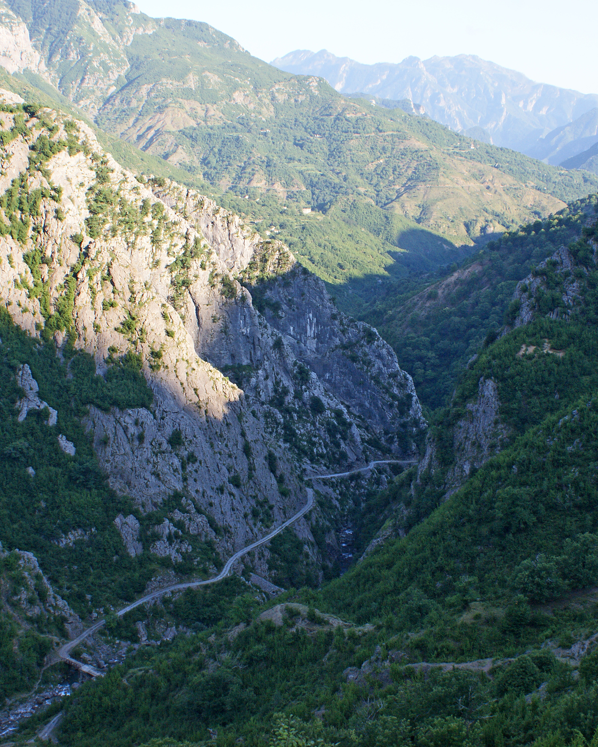 Gorge of the upper Kir river close to Plan, Albanian Alps